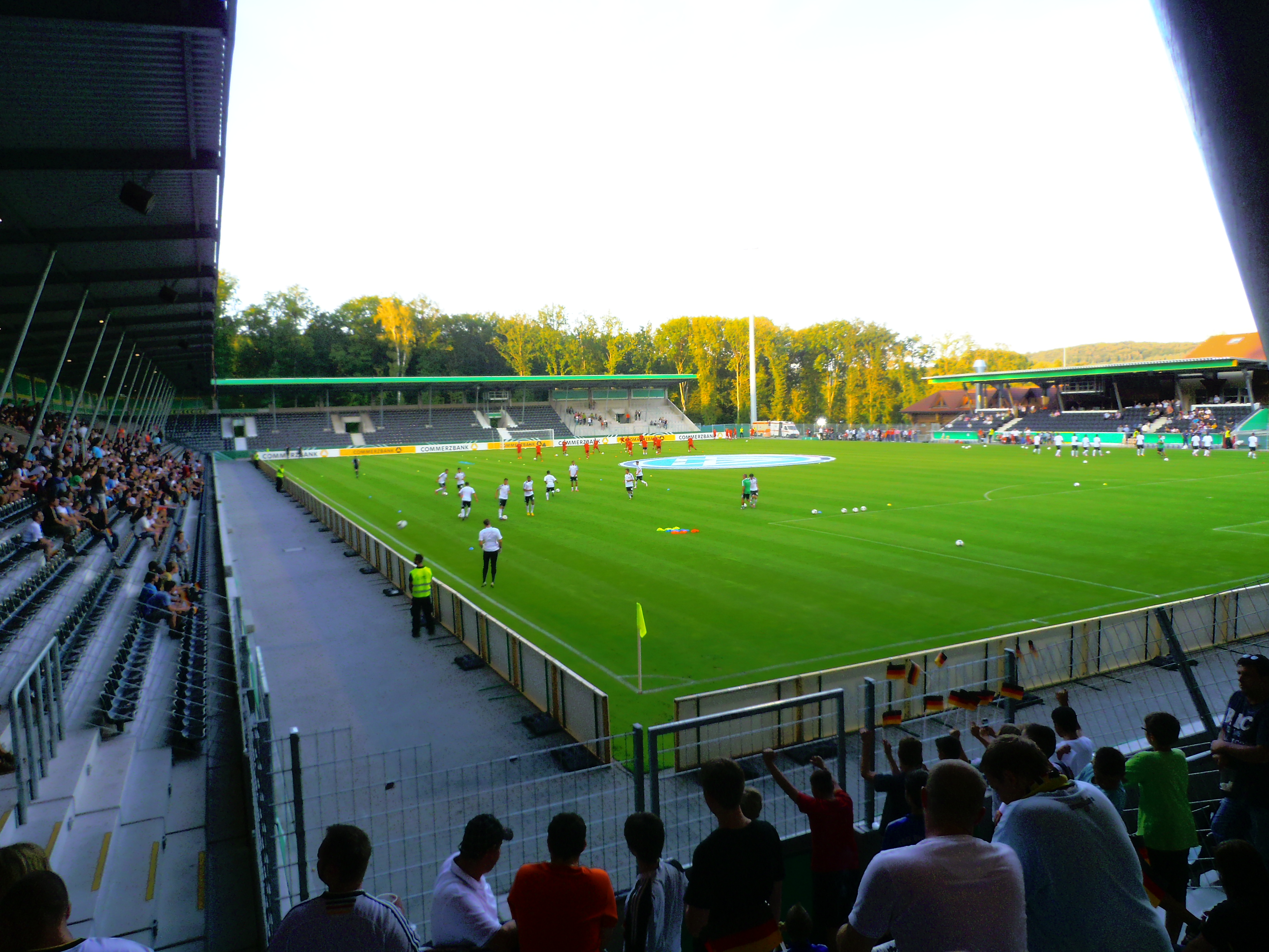 U20 International match between Germany and Poland in Großaspach